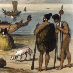 Cropped version from 'War Speech', by Augustus Earle. This version shows two Māori chiefs in 1827 or 1828 with a kurī or Polynesian dog in front of them.